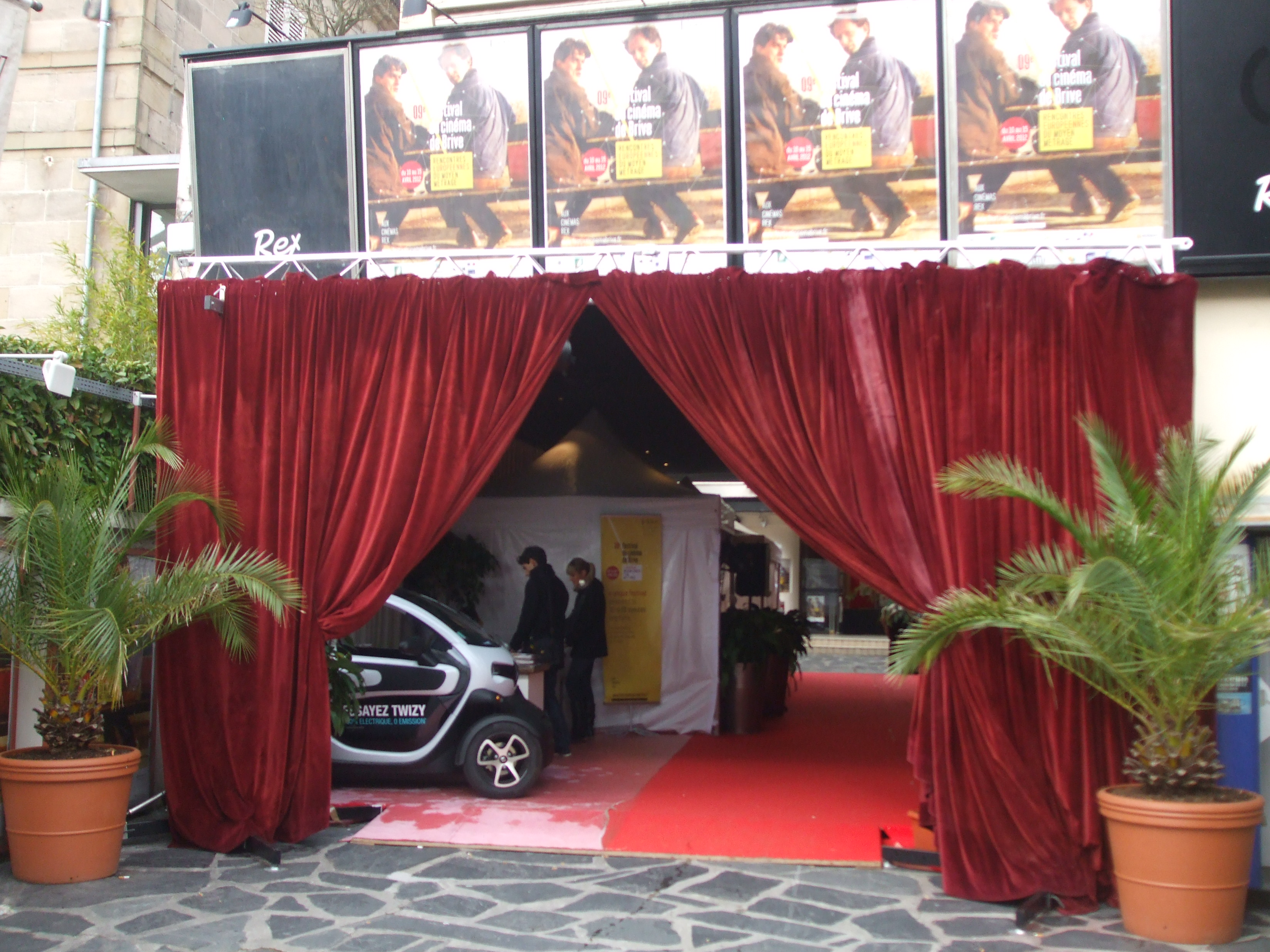 The entrance of the cinema Rex, Brive la Gaillarde, France, during the 9 th medium-lenght film Festival, 2012 04 15